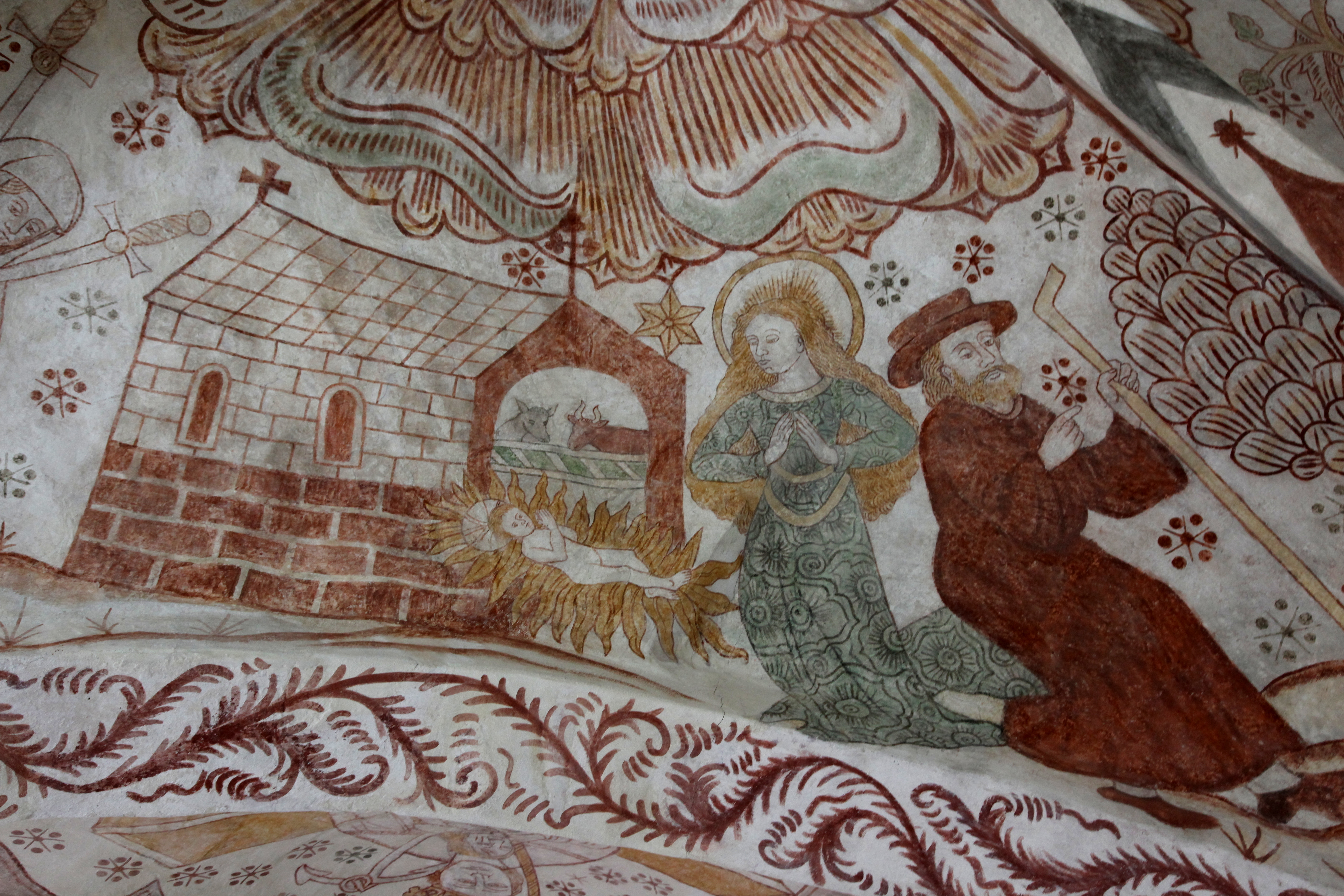 Fresco in Skivholme Kirke, Denmark